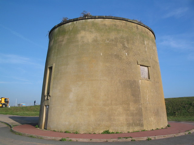 Martello Tower 25